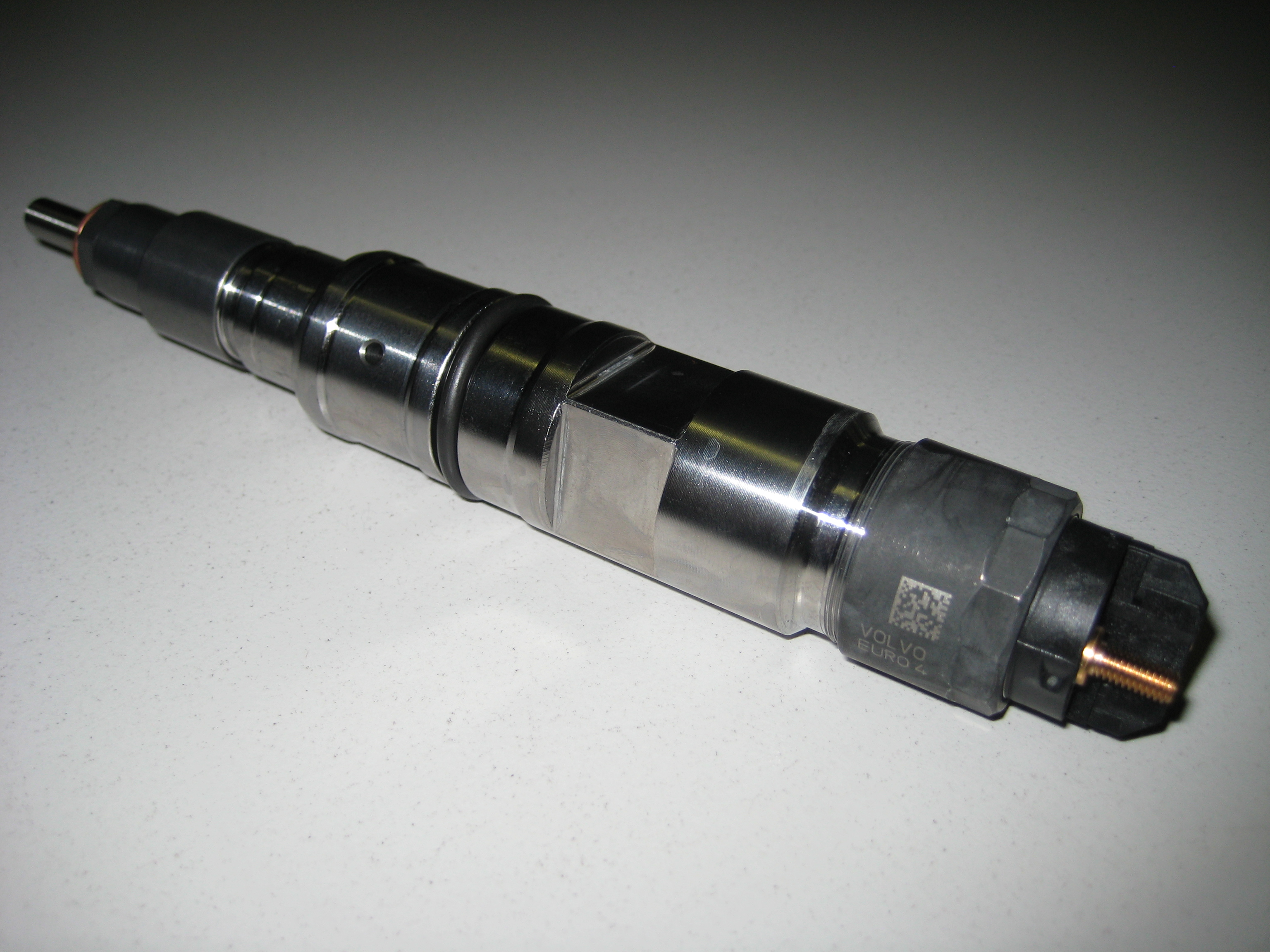 Common rail fuel injection injector from Deutz 7.2 Litre diesel engine for Volvo FE/FL range